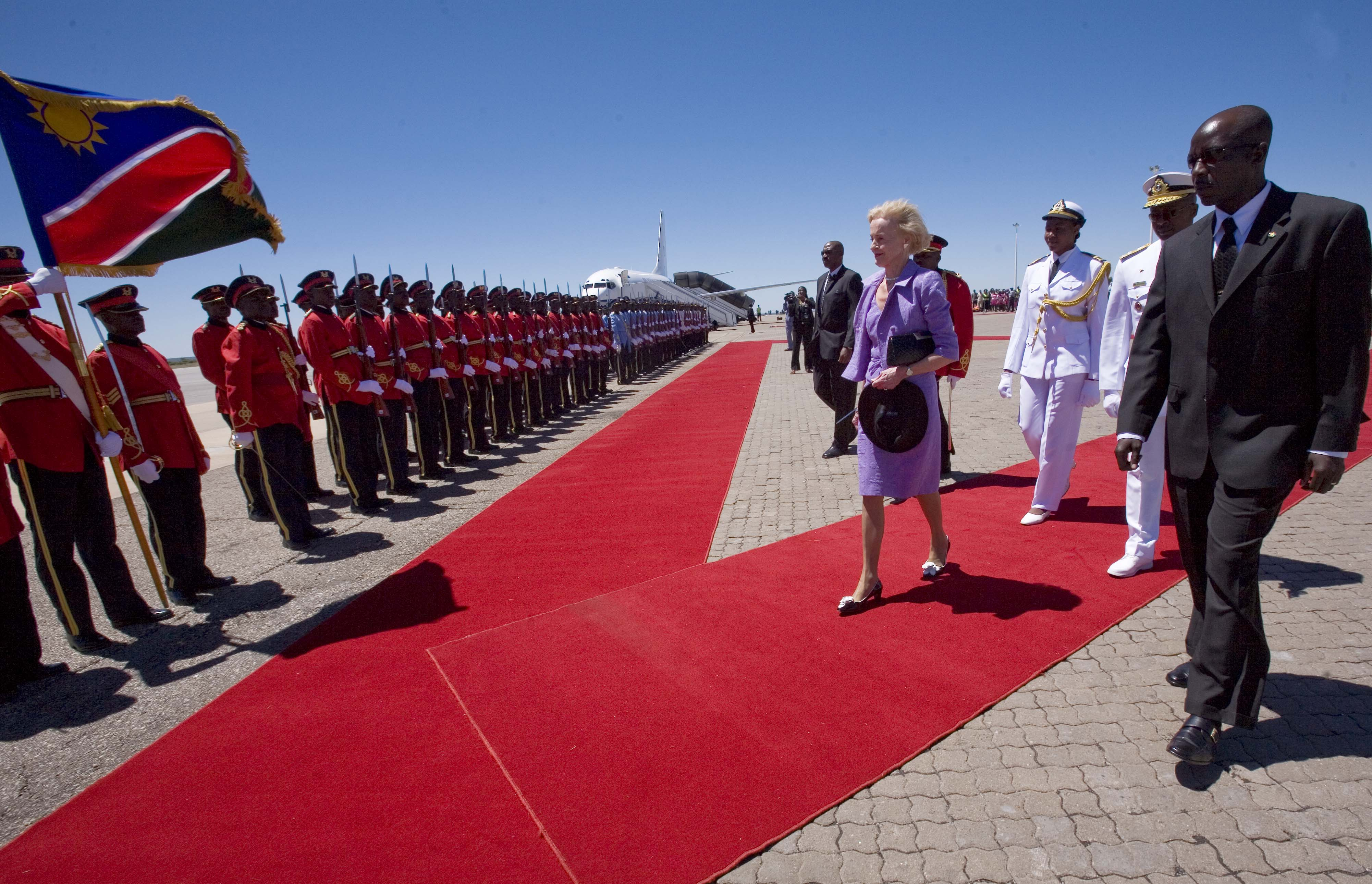 Governor-General of the Commonwealth of Australia, Ms Quentin Bryce AC CVO walks to inspect the official parade upon her arrival at the airport in Windhoek, Namibia in March 2009.